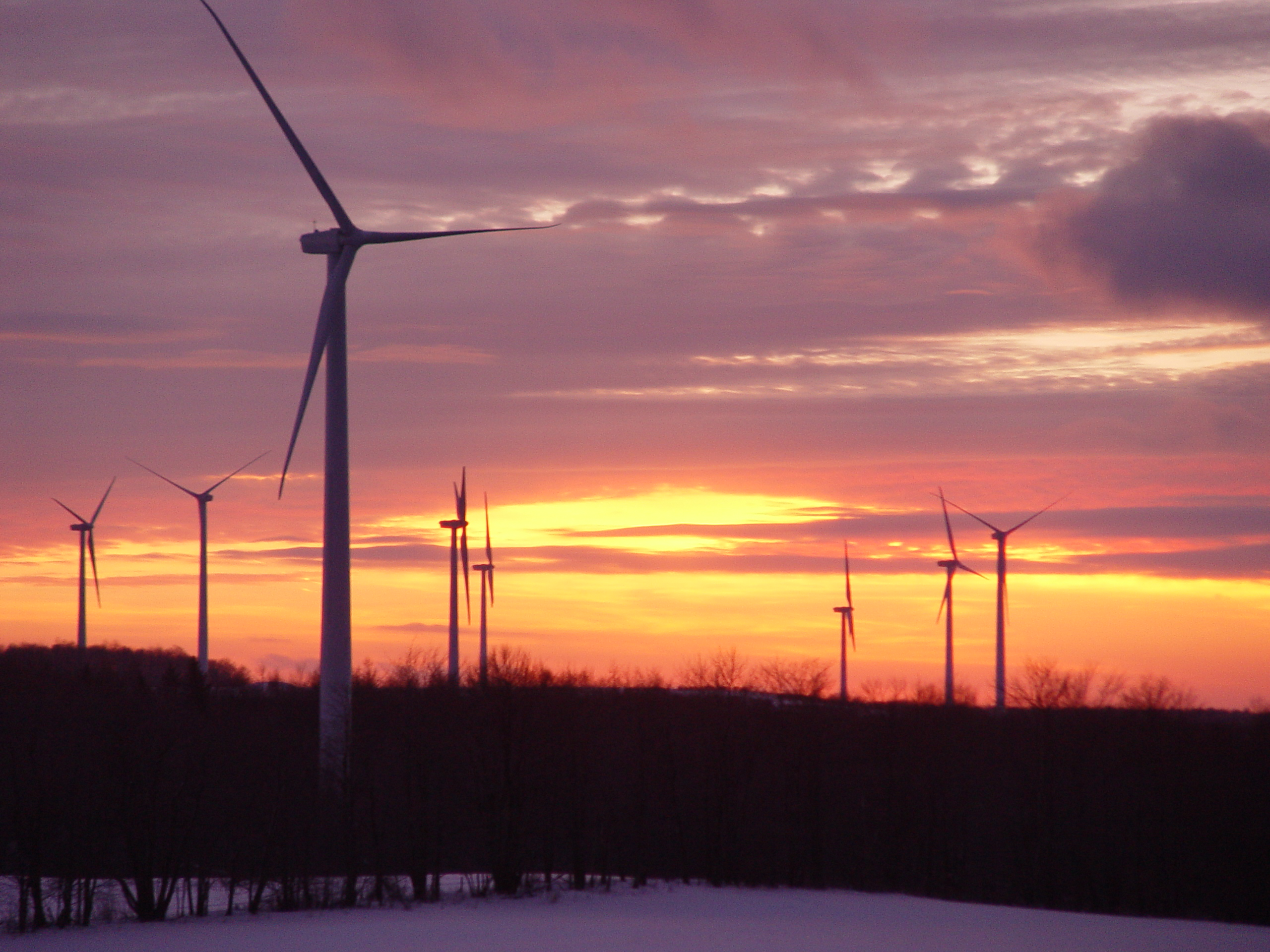 Bliss Wind Farm near Eagle, New York